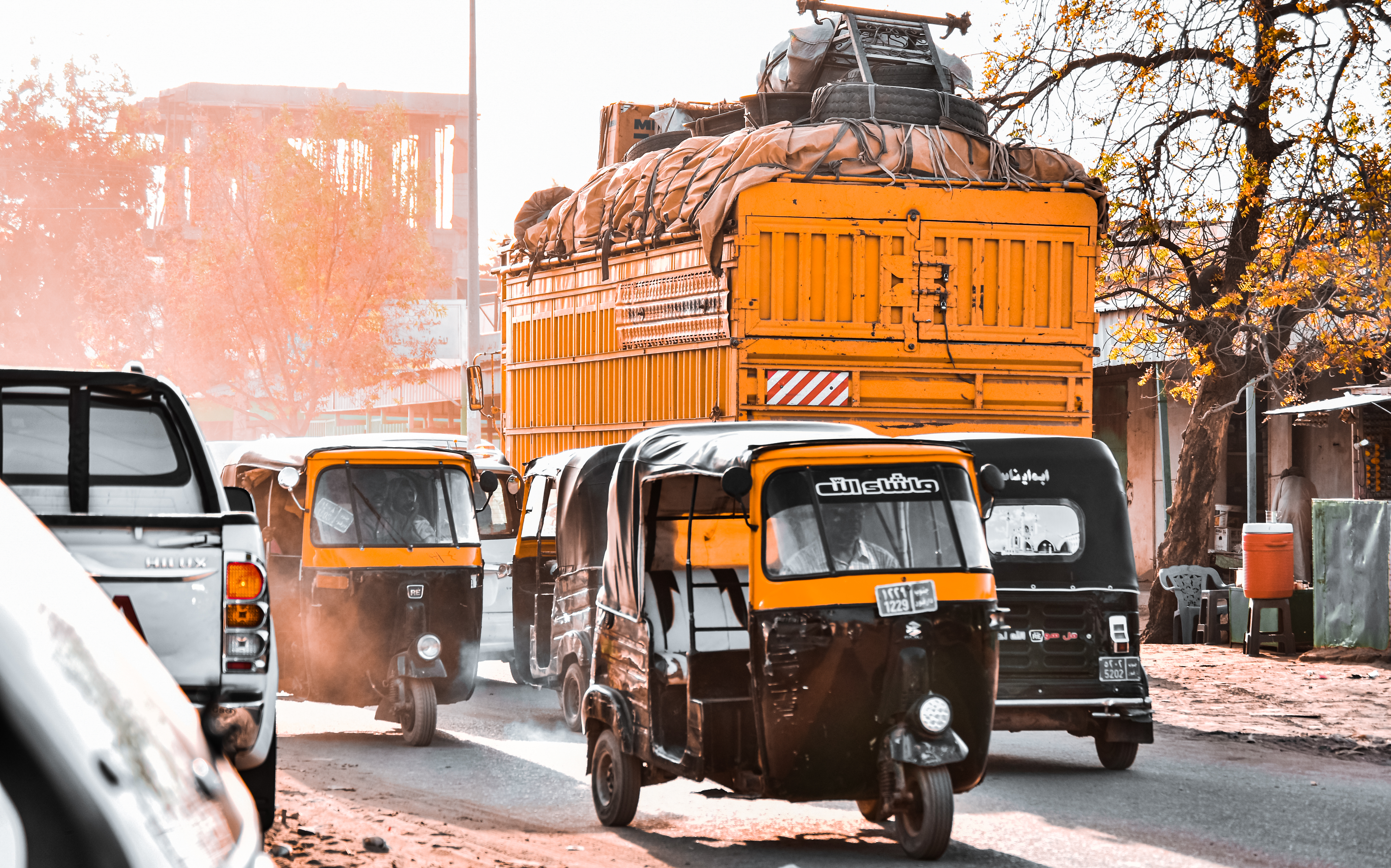 WLASudan2020 السودان ولاية جنوب دارفور . نيالا This is an image with the theme "Africa on the Move or Transport" from: Sudan